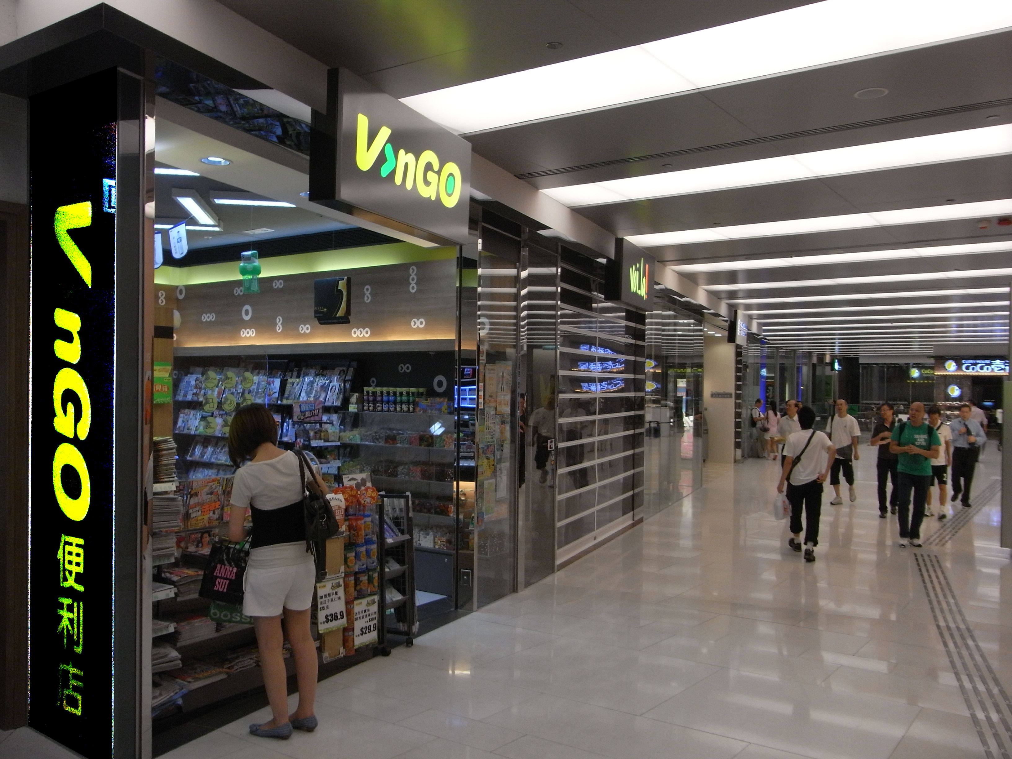 觀塘